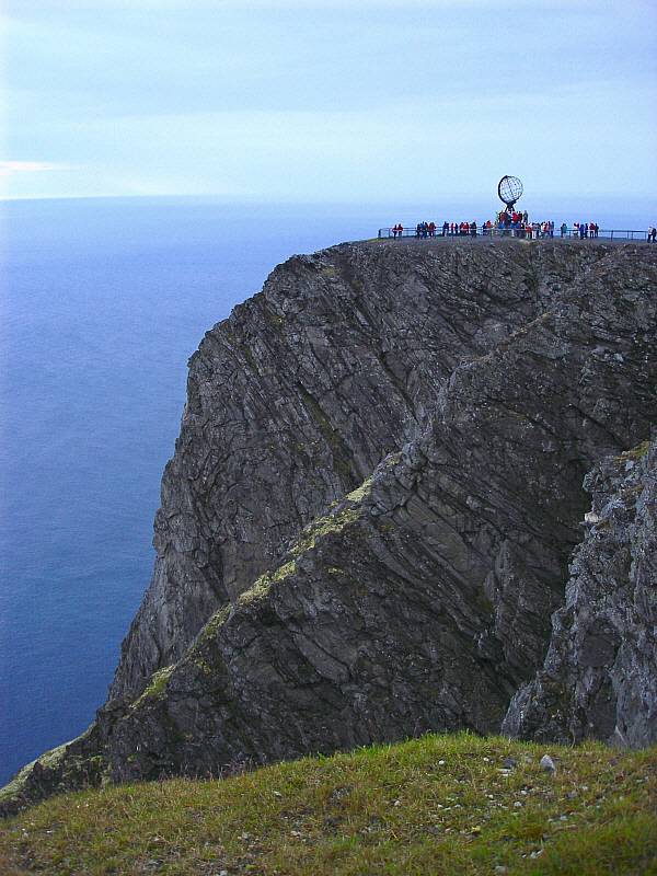 North Cape